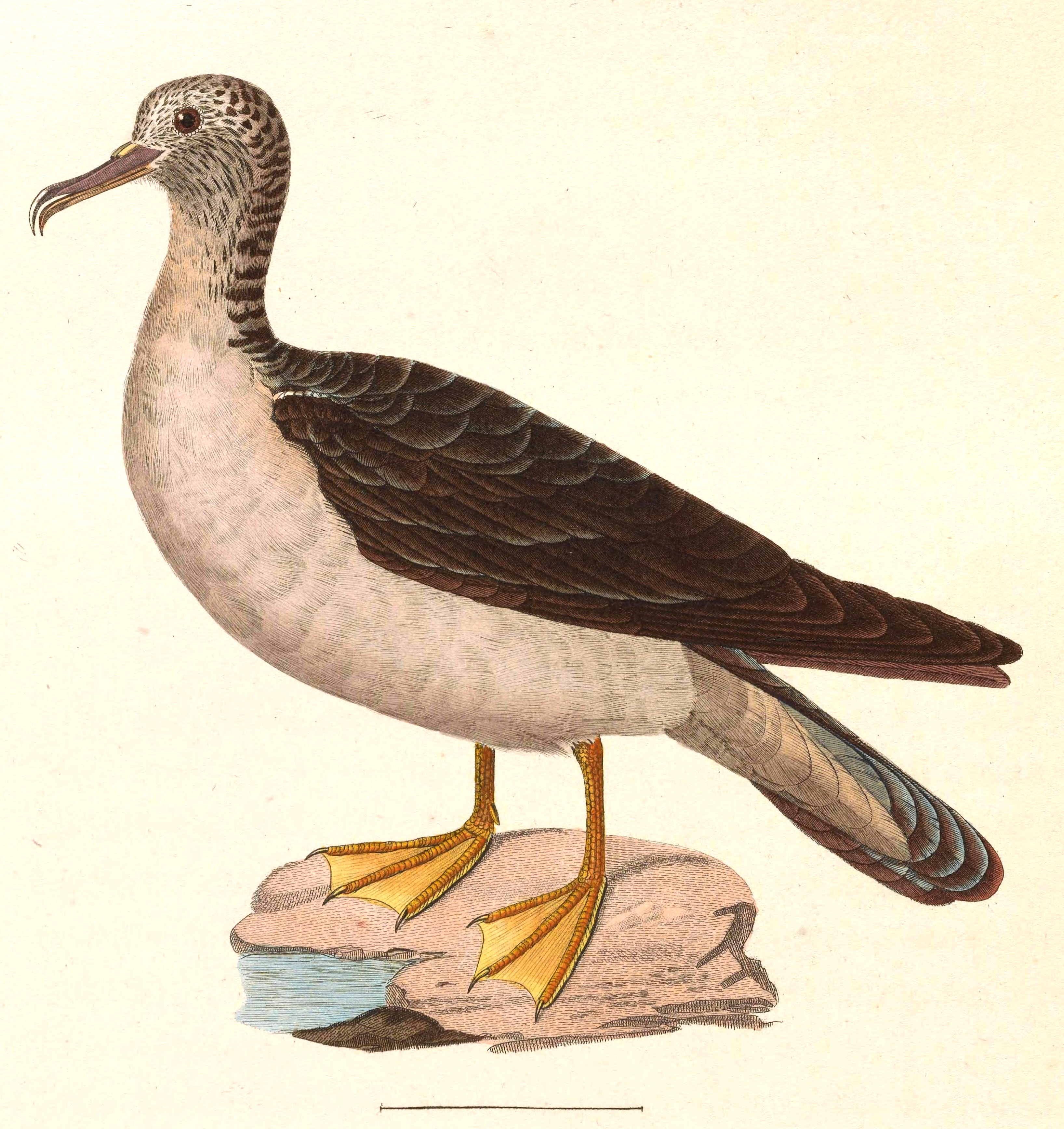 « Procellaria leucomelas » = Calonectris leucomelas (Streaked Shearwater) - adult